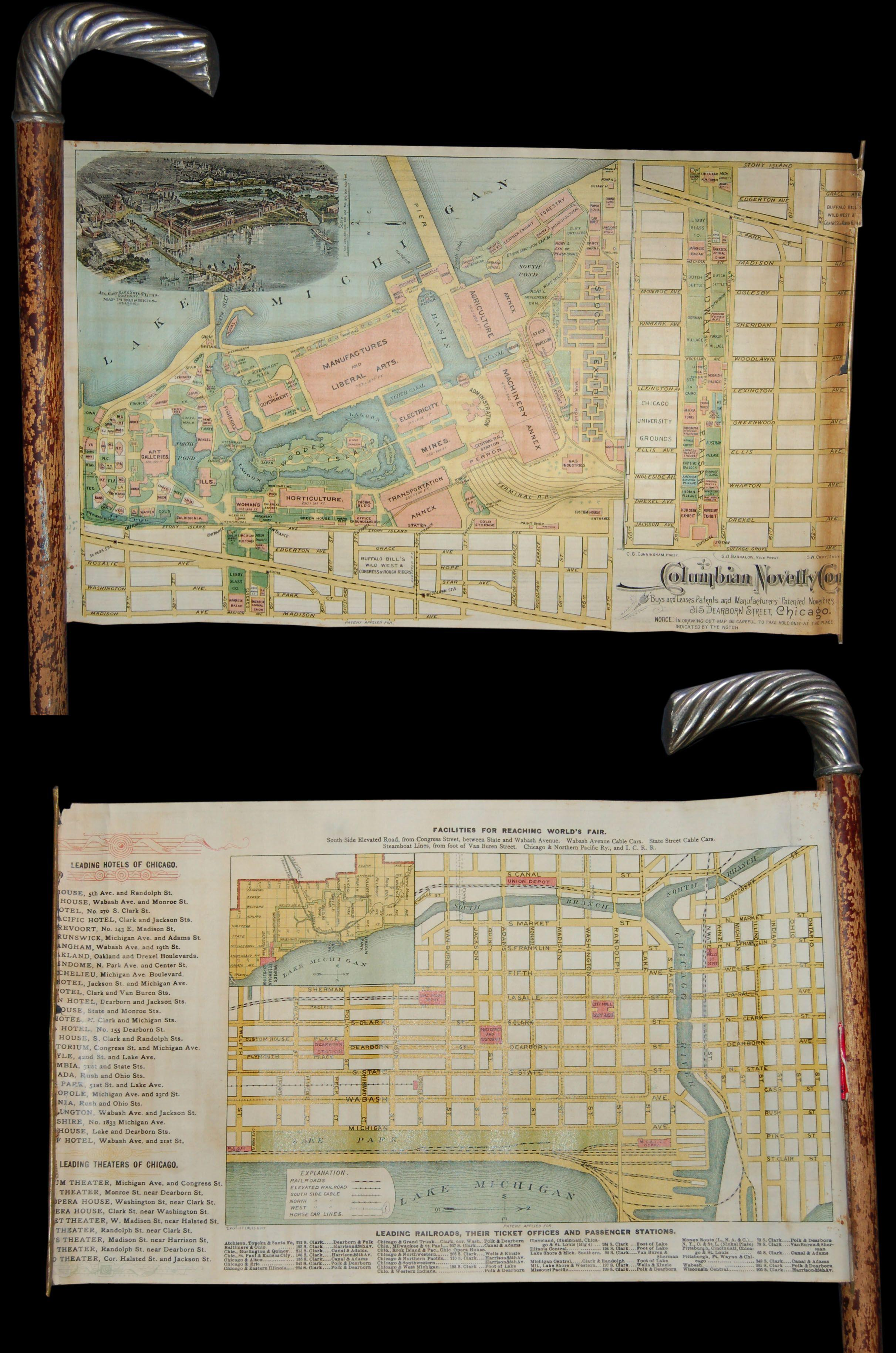 An extremely rare and unusual cane and map prepared in 1893 for the Chicago World's Fair or, as it is better known, the 1893 Columbian Exposition. The map extends from an internal roller mechanism in the top of the cane. It is printed and hand colored on both sides. The primary side shows the grounds of the Columbian Exposition, now Jackson Park and the Field Museum, naming all important buildings walks, pavilions, markets, etc. Among the specific sites noted are Buffalo Bill's Wild West Show & Congress of Rough Riders, the Chicago University Grounds, and the various pavilions established for manufacturing, mining, transportation, liberal arts, agriculture, machinery, etc. In the upper left quadrant there is a aerial view of the entire fair. A larger inset along the right hand side of the map focuses on the Midway from Stony Island to Cottage Grove. The 1893 Columbian Exposition or Chicago World's Fair was a pivotal moment in the history of the United States. Chicago won the right to host the World's Fair over New York, Washington D.C., and St. Louis. During its six month run, nearly 27,000,000 people, roughly half the population of the United States at the time, attended the fair. Its numerous displays and exhibits established conventions for architecture, design, and decorative arts, in addition to initiating a new era of American industrial optimism. The layout and design of the fair, as seen here, is the world of Daniel Burnham and Frederick Law Olmsted, the genius behind New York City's Central Park. Most of the fair was designed in the Beaux Arts tradition, a popular movement in Paris that was quickly gaining global momentum. In the years following the fair, this influential architectural style redefined the cityscape of Chicago, Boston, New York, and many other prominent American cities. Printed by August Gast of St. Louis for the Columbian Novelty Company of Chicago. Originally sold in the gift shops of the 1893 Columbian Exposition.